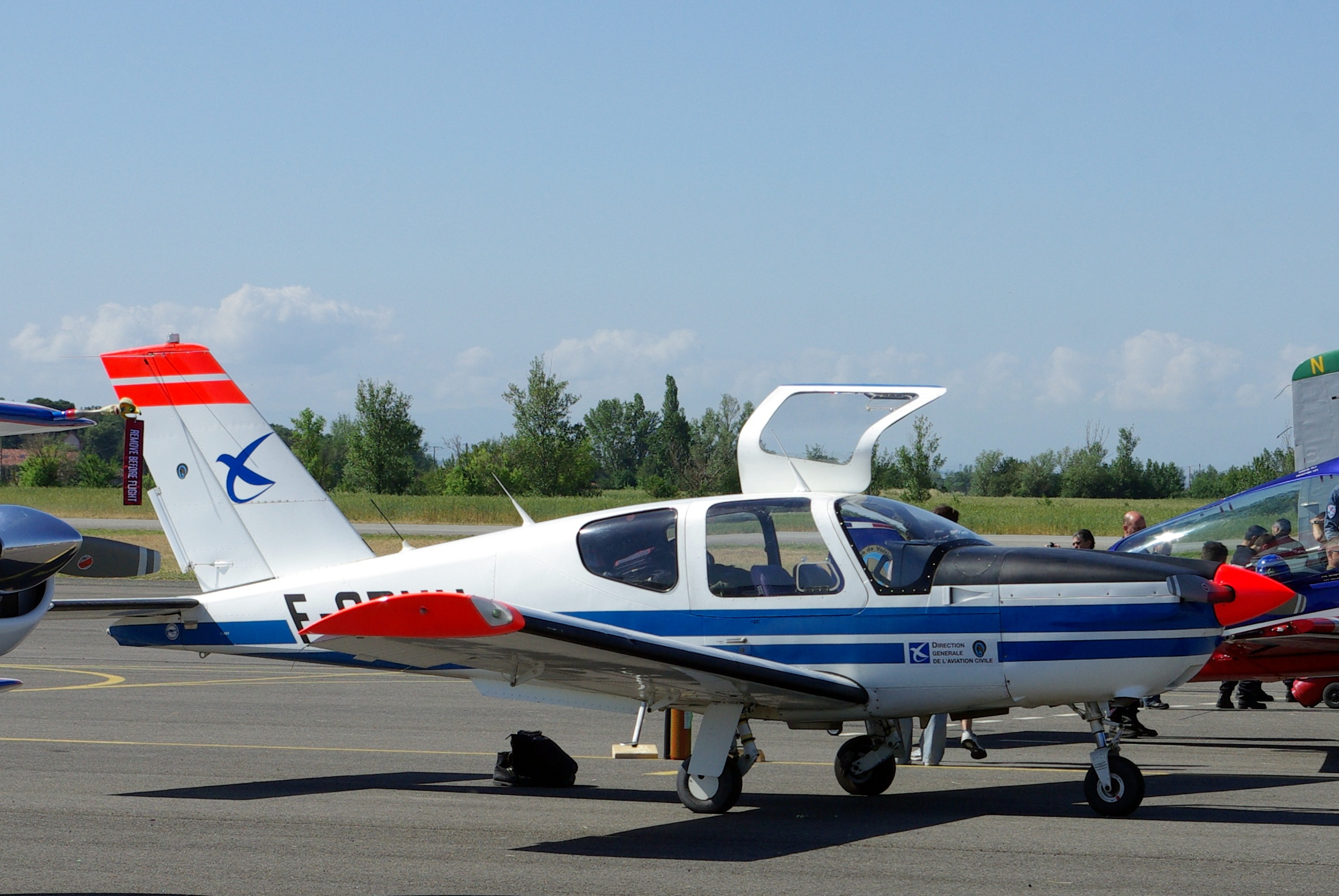 A Socata TB-20 of the École nationale de l'aviation civile at the AirExpo airshow on the Muret-Lherm airfield on may 28th 2011.